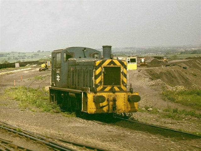 Etherley Railway Tip, Witton Park. The location was just to the north of the village of Witton Park, although the railway station at this location was Etherley, a village a mile or so away. 'Spent' track ballast and materials were dumped at a landfill at this location in the post-war years, until the 'tip' was closed in 1989. Loco 03067 was based here for shunting spoil wagons in June 1978.